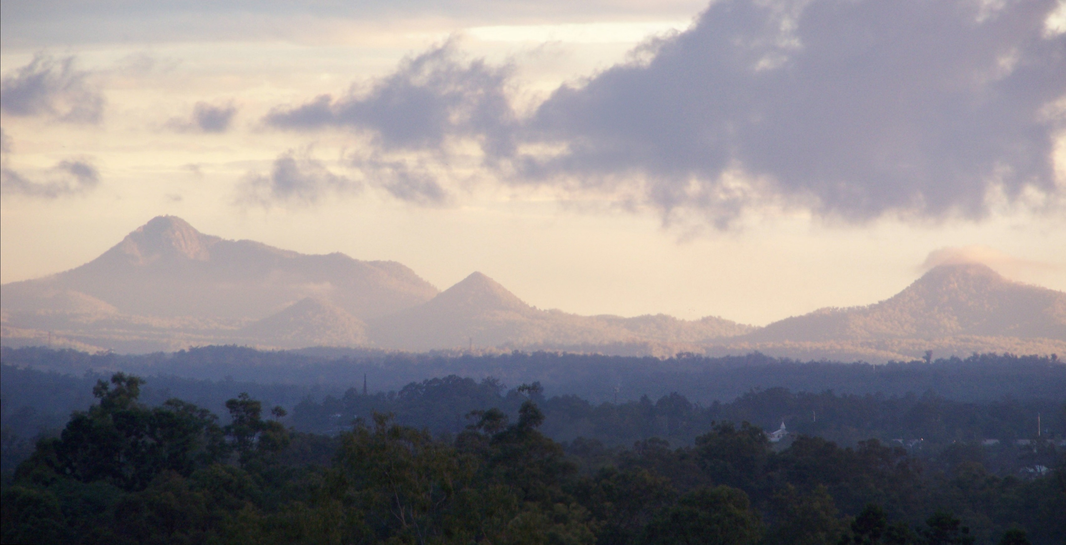 Unnamed range, with Flinders Peak, Queensland, Australia, at sunset.